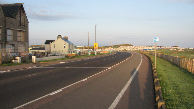 Approaching Juniper Hill. Heading towards the chicane just before Juniper Hill.848014